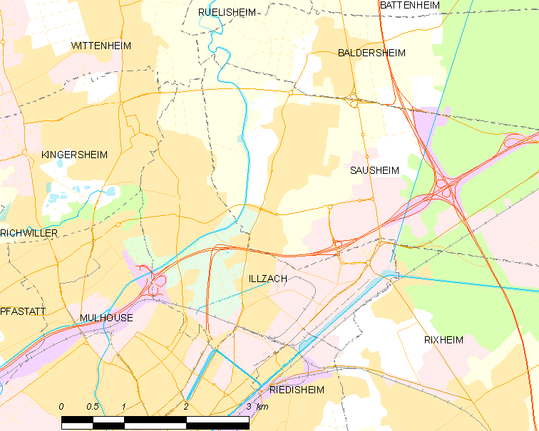 Map of French municipality